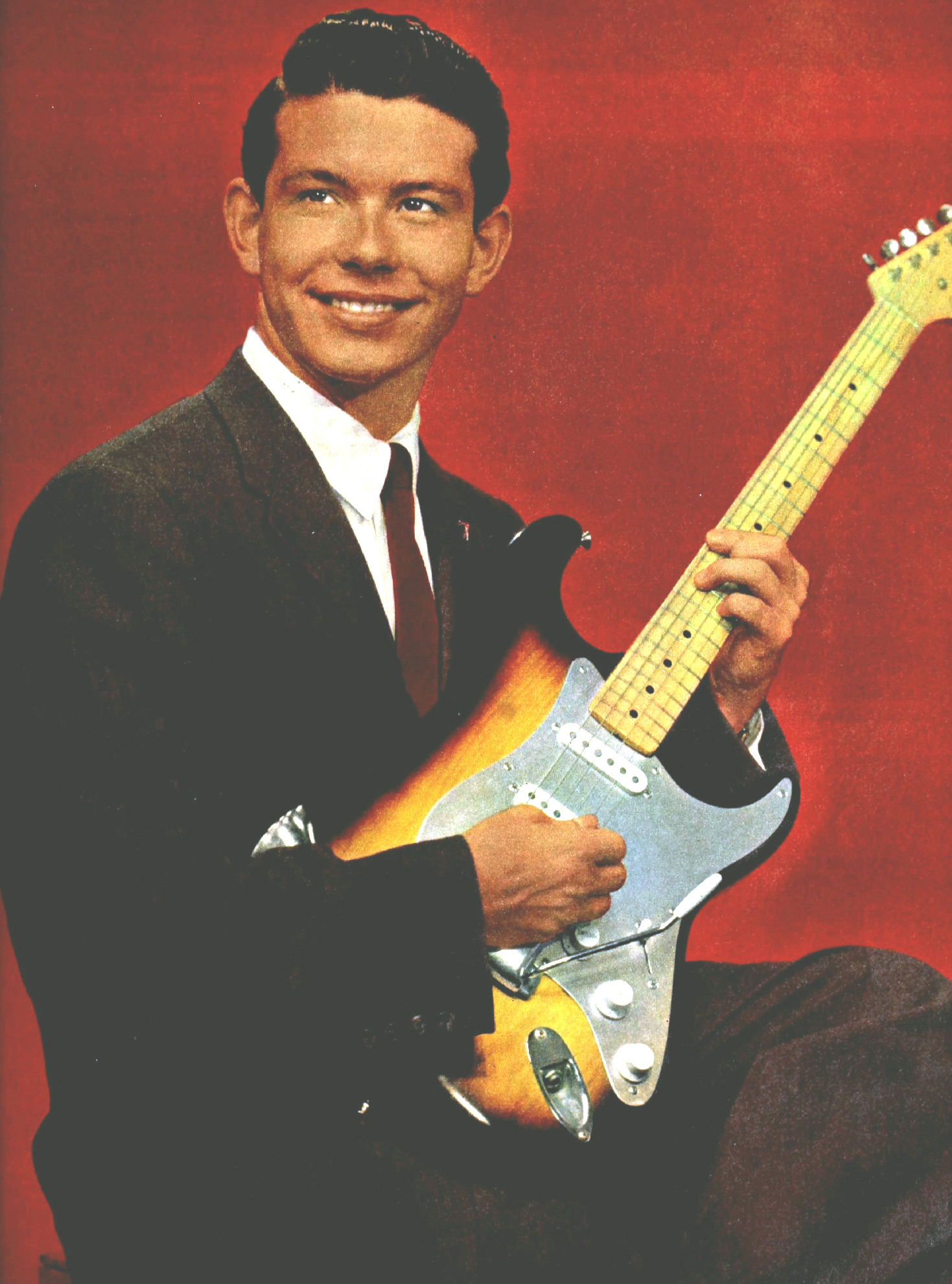 Photo of guitarist Buddy Merrill.